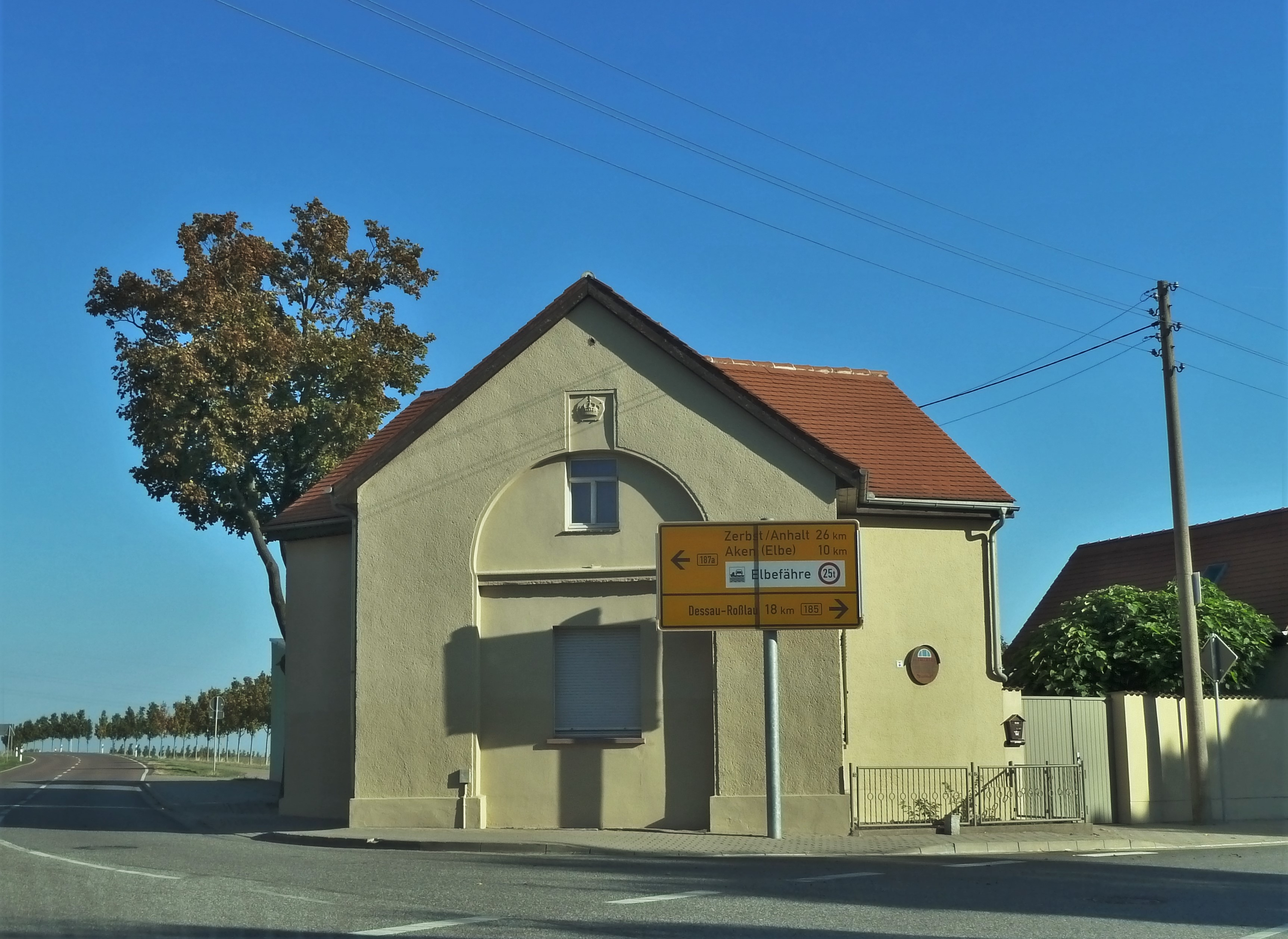 Custom house (Chausseehaus) in Porst (Anhalt) bei Köthen (Anhalt) in Saxony-Anhalt, Germany